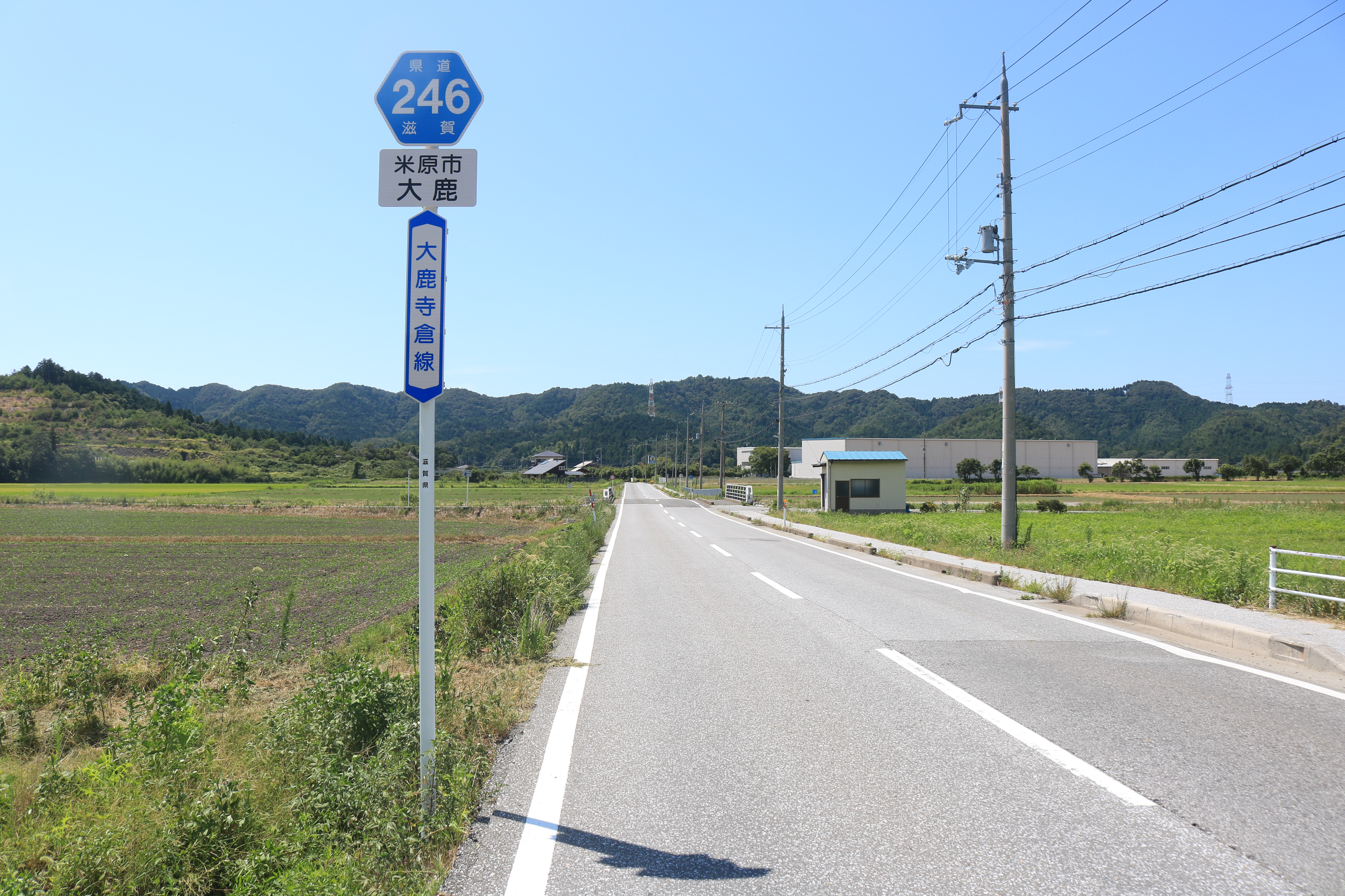 Shiga Prefectural Road Route 246 in Oshika, Maibara, Shiga Prefecture, Japan.